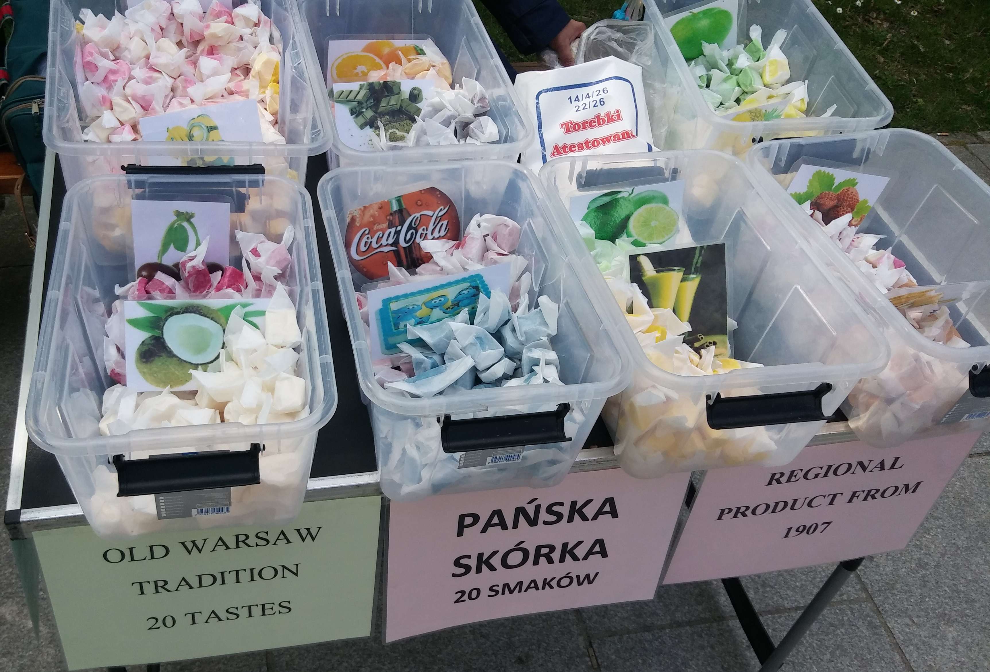 Homemade candy called 'Pańska skórka' ('Maidenly skin') in Warsaw